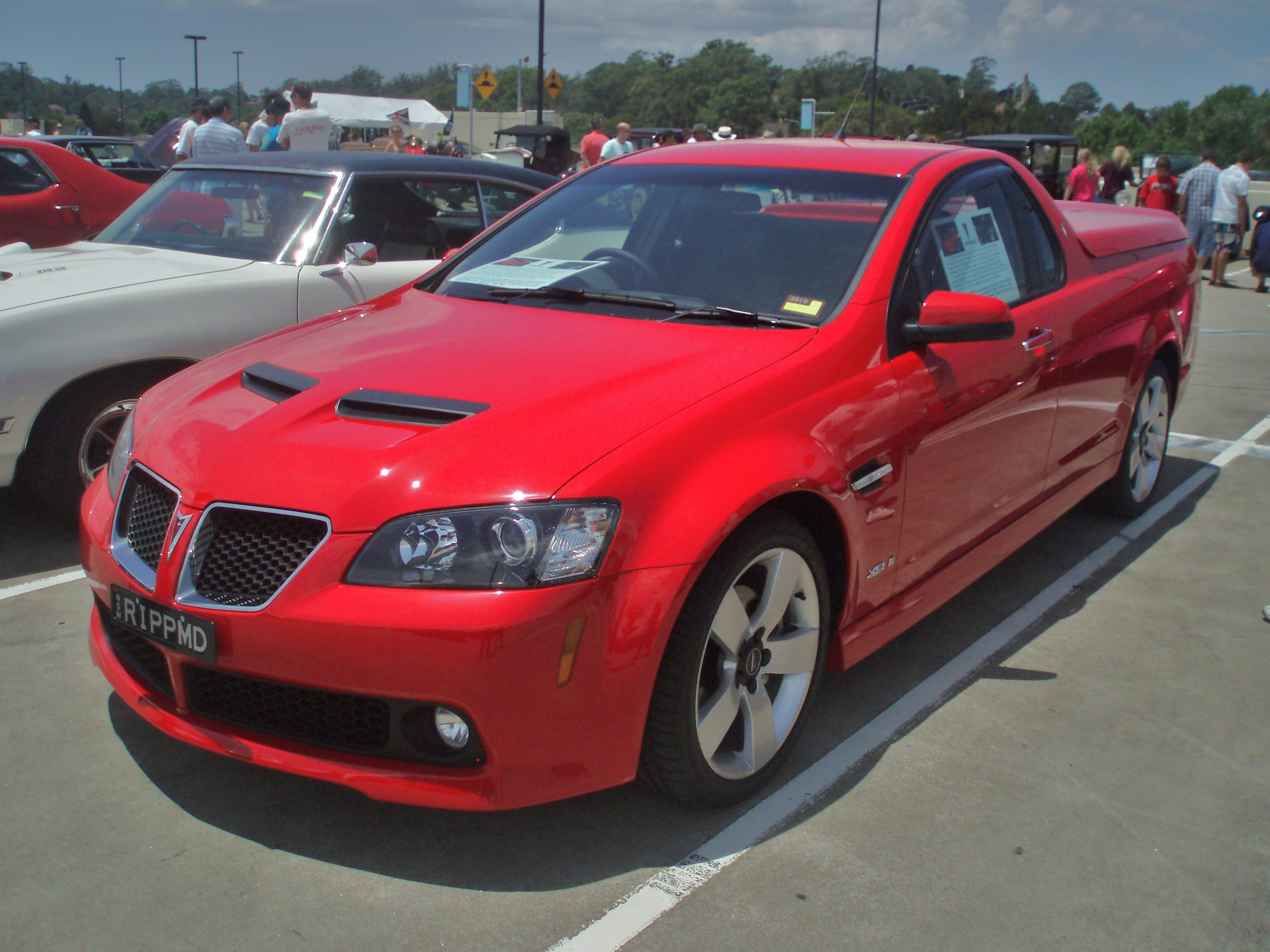 2009 Holden VE Commodore SS ute, rebadged as a Pontiac G8 ST pick up. Taken at the 2010 New South Wales All American Day, held at Castle Towers Shopping Centre, Castle Hill, Sydney.